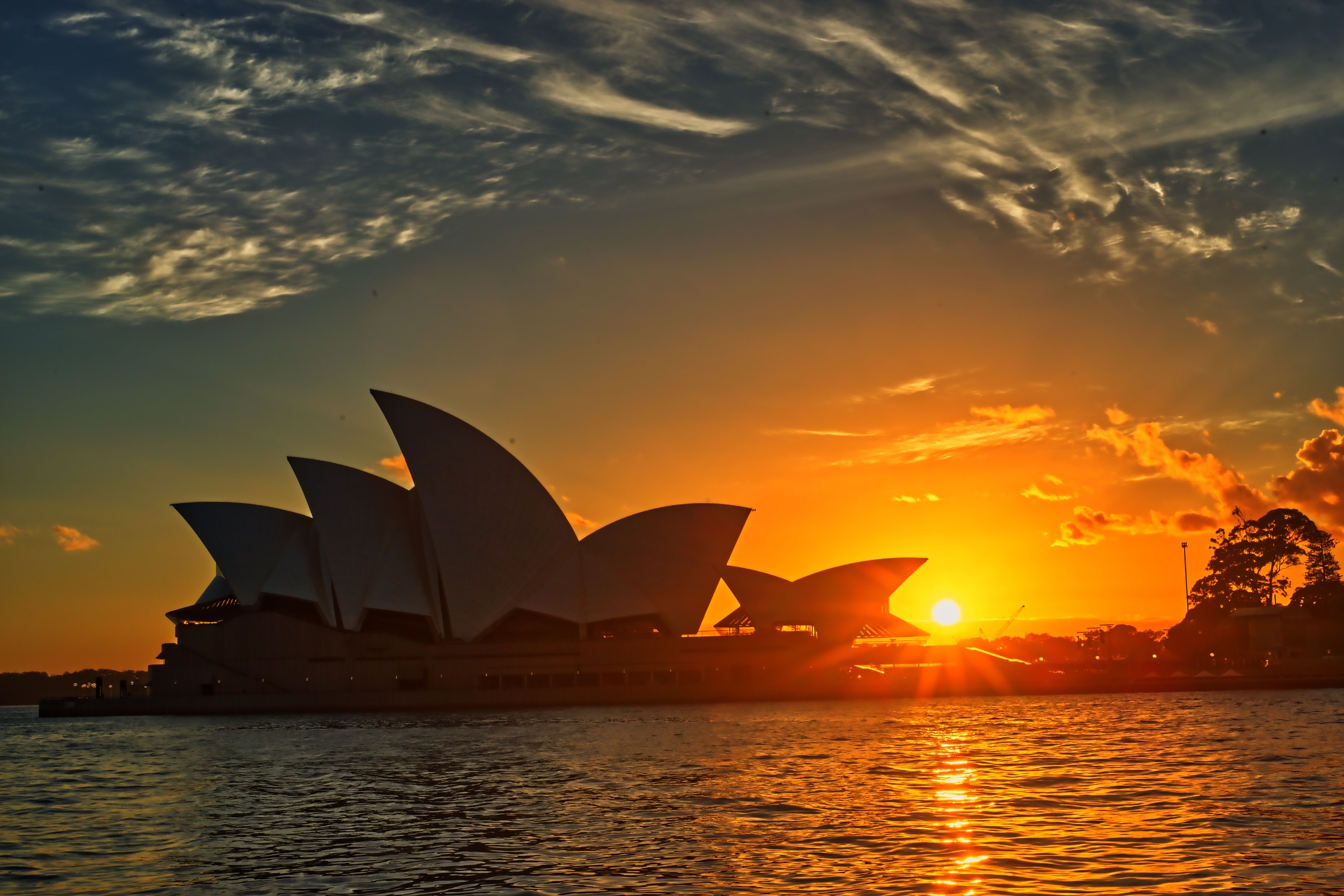 The Sydney Opera House during sunrise，the photo was taken by Chen Hualin.